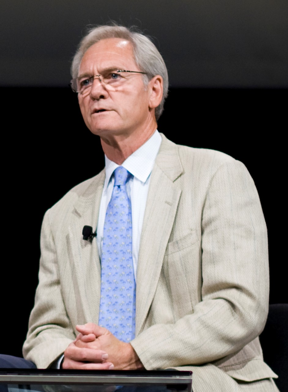 Former Alabama Governor Don Siegelman at Netroots Nation 2008 in Austin, Texas.